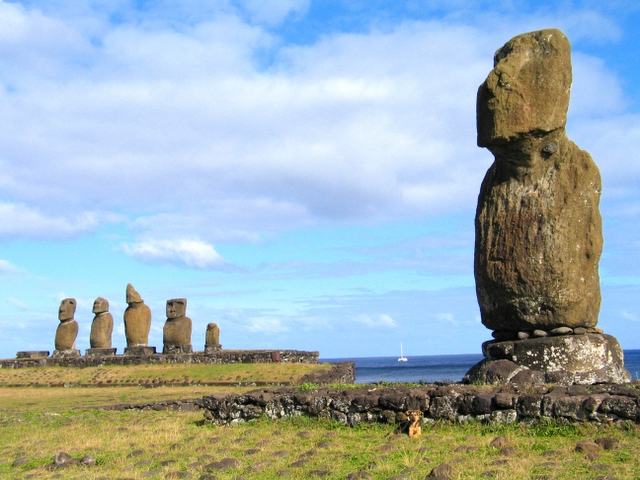 Ahu Tahai (right) and five Moais Ahu Vai Uri